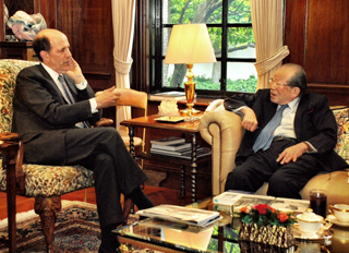 Shigeaki Hinohara, Chairman of the St. Luke's International Medical Center, talked with John Roos, Ambassador to Japan, at the Ambassador's Residence in Tokyo on May 15, 2013.